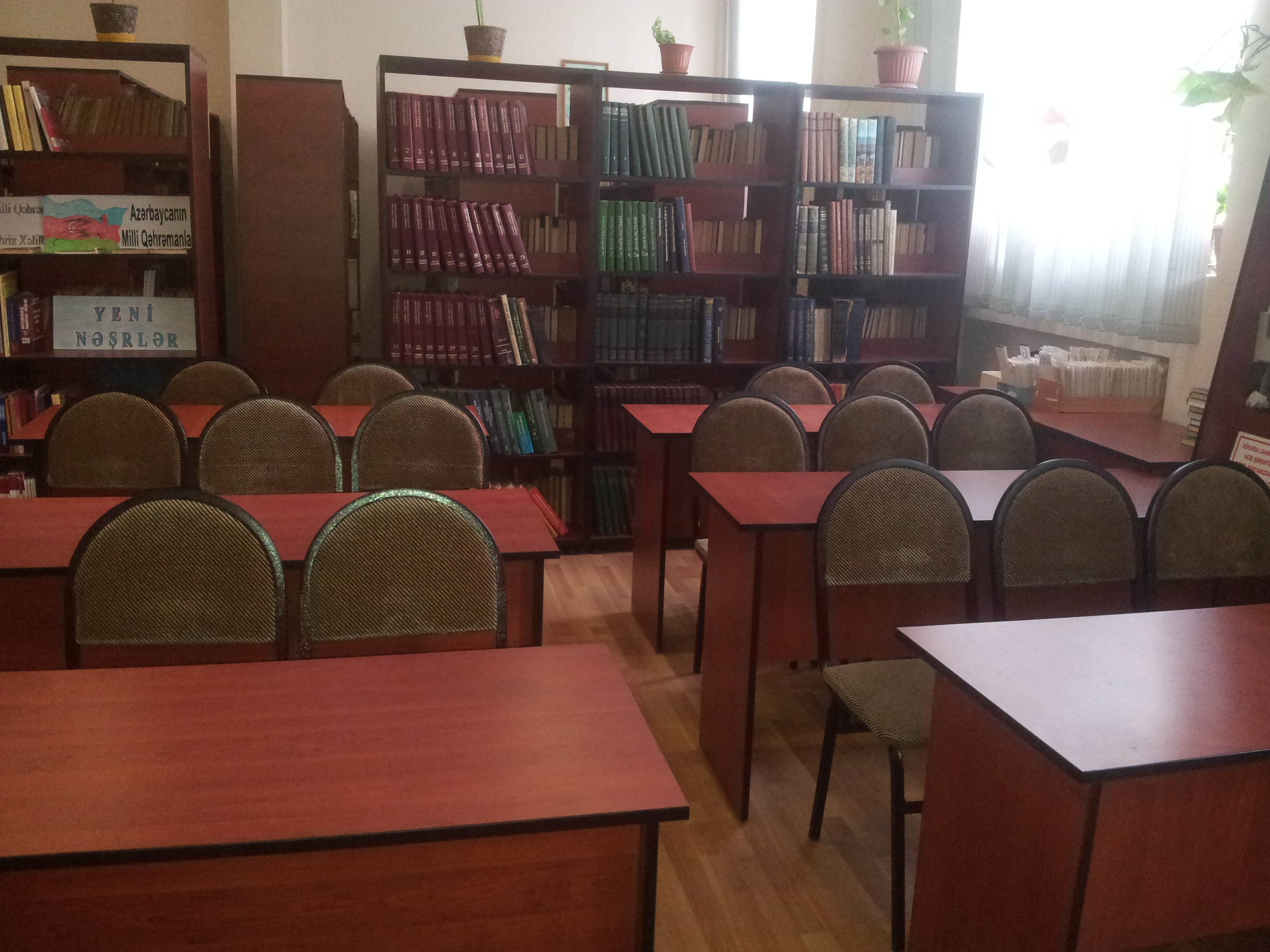 library oxu zalı